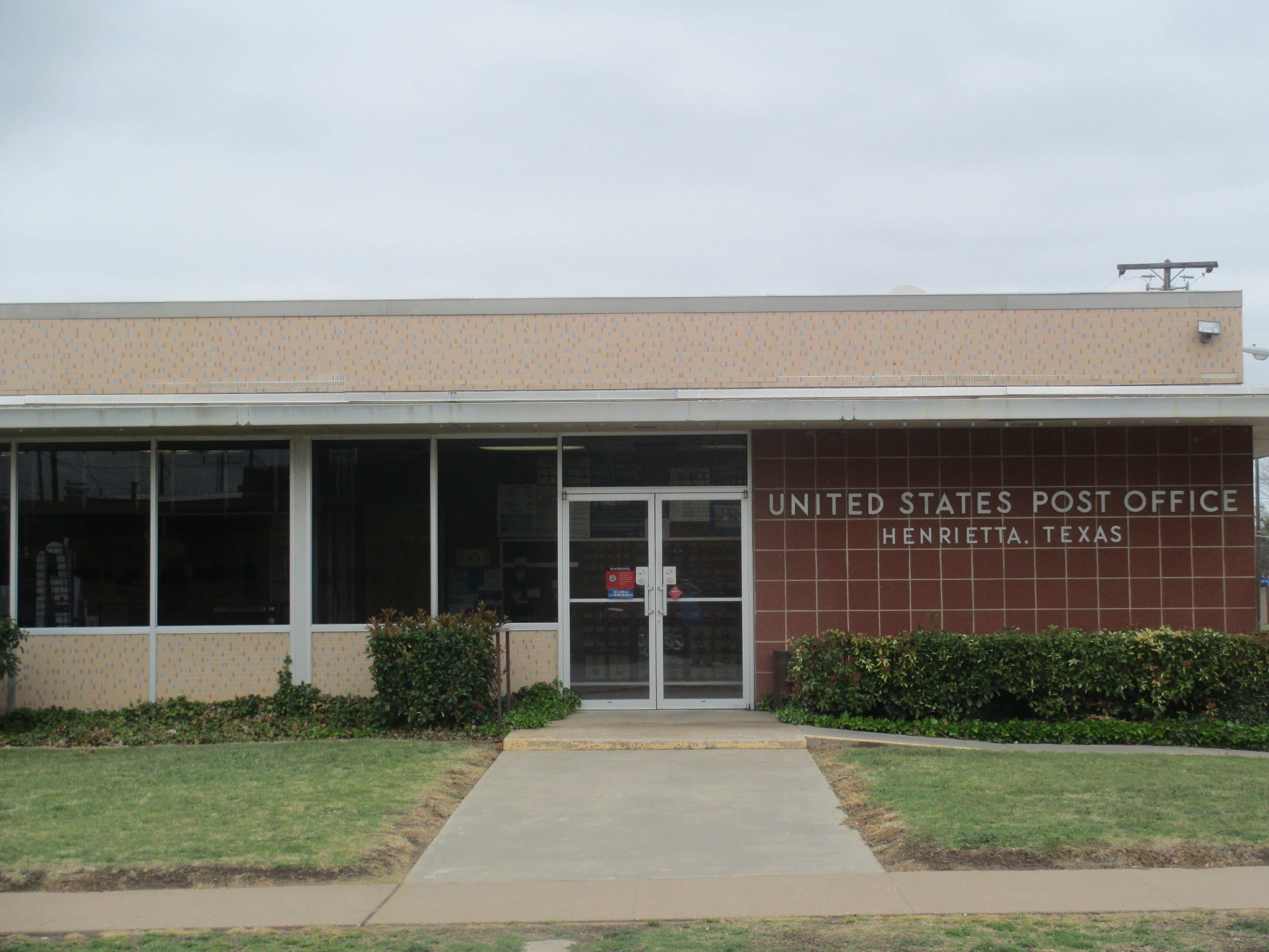 I took photo of post office in Henrietta, TX, with Canon camera, April 4, 2013. Billy Hathorn (talk) 22:52, 10 April 2013 (UTC)